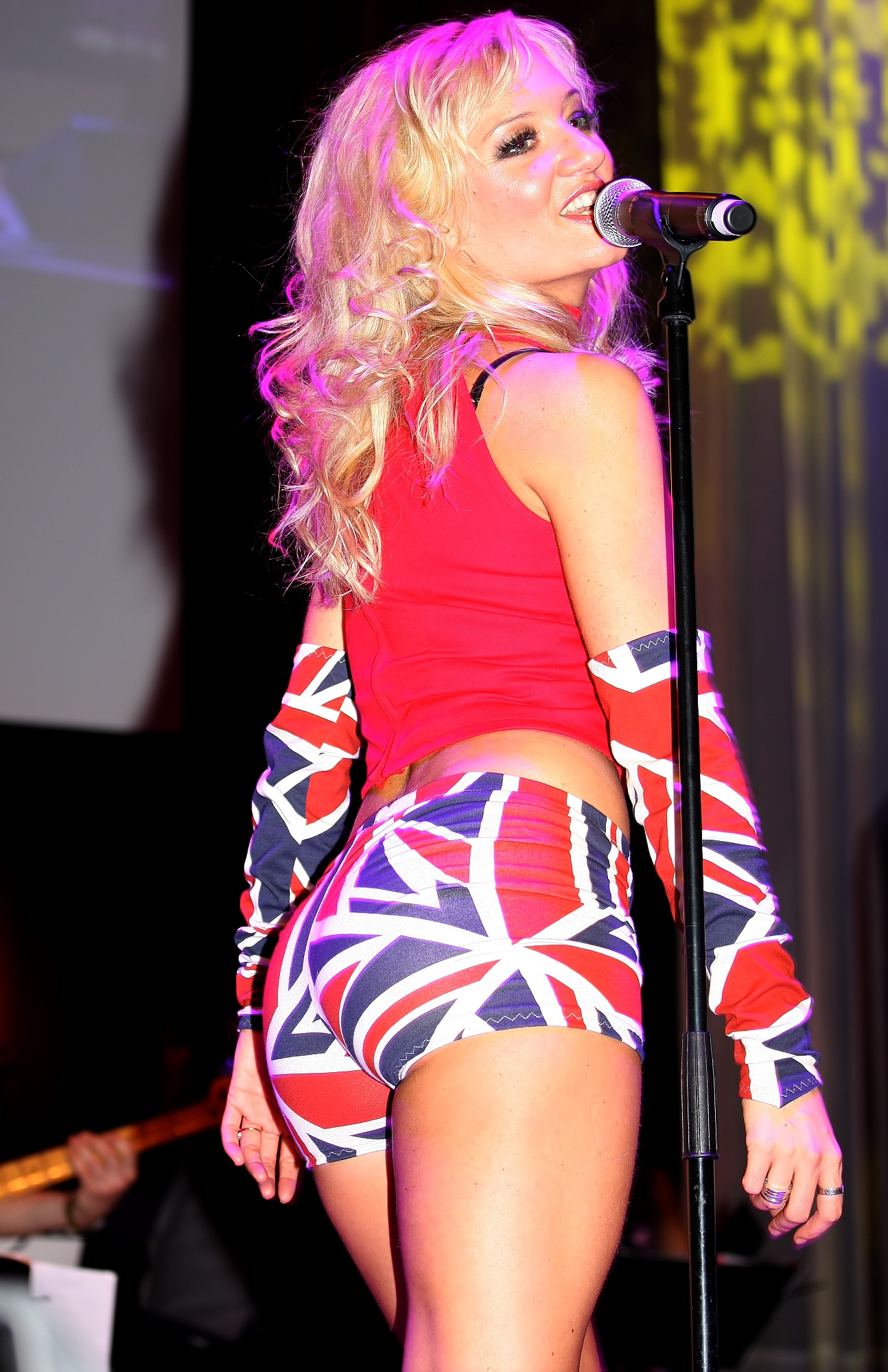 Juliette Schoppmann performing on the charity concert "Cover me" at Palladium, Cologne, Germany.